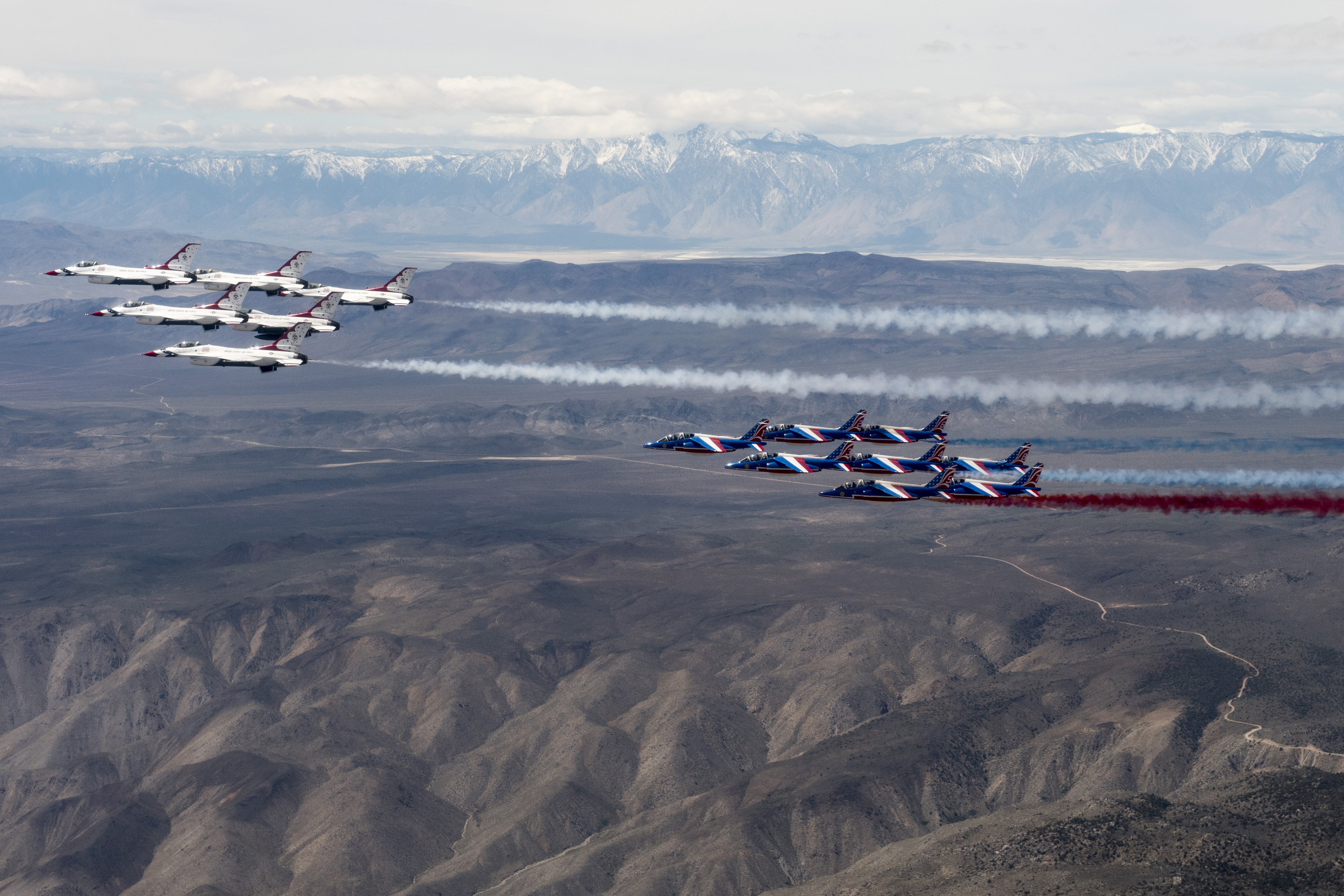 The United States Air Force Thunderbirds and Patrouille de France fly together over Death Valley, Calif., April 17, 2017. The Thunderbirds and Patrouille de France are two of the oldest aerial demonstration teams in the world.